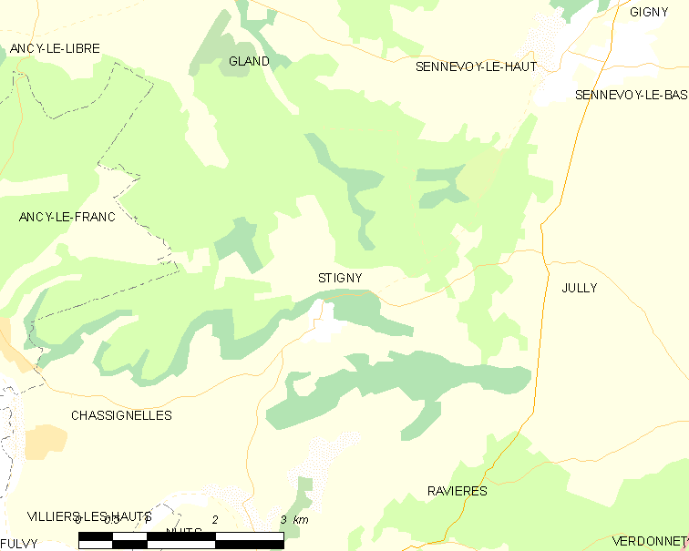 Map of French municipality Stigny